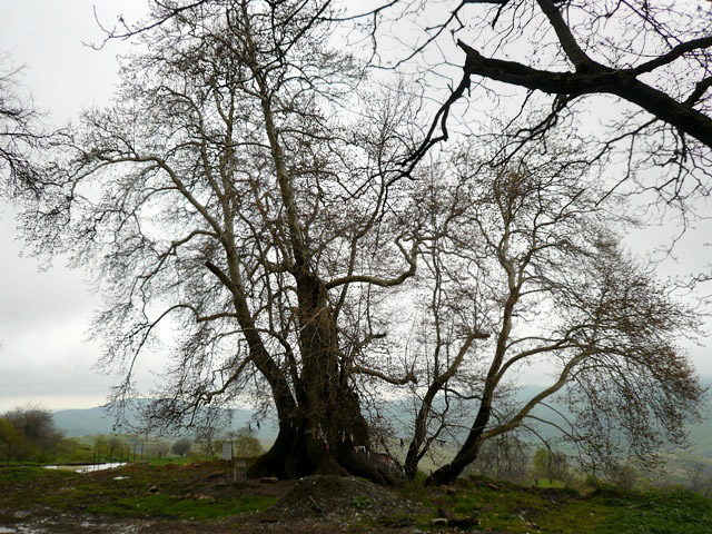 2000 years old tree in Skhtorashen village